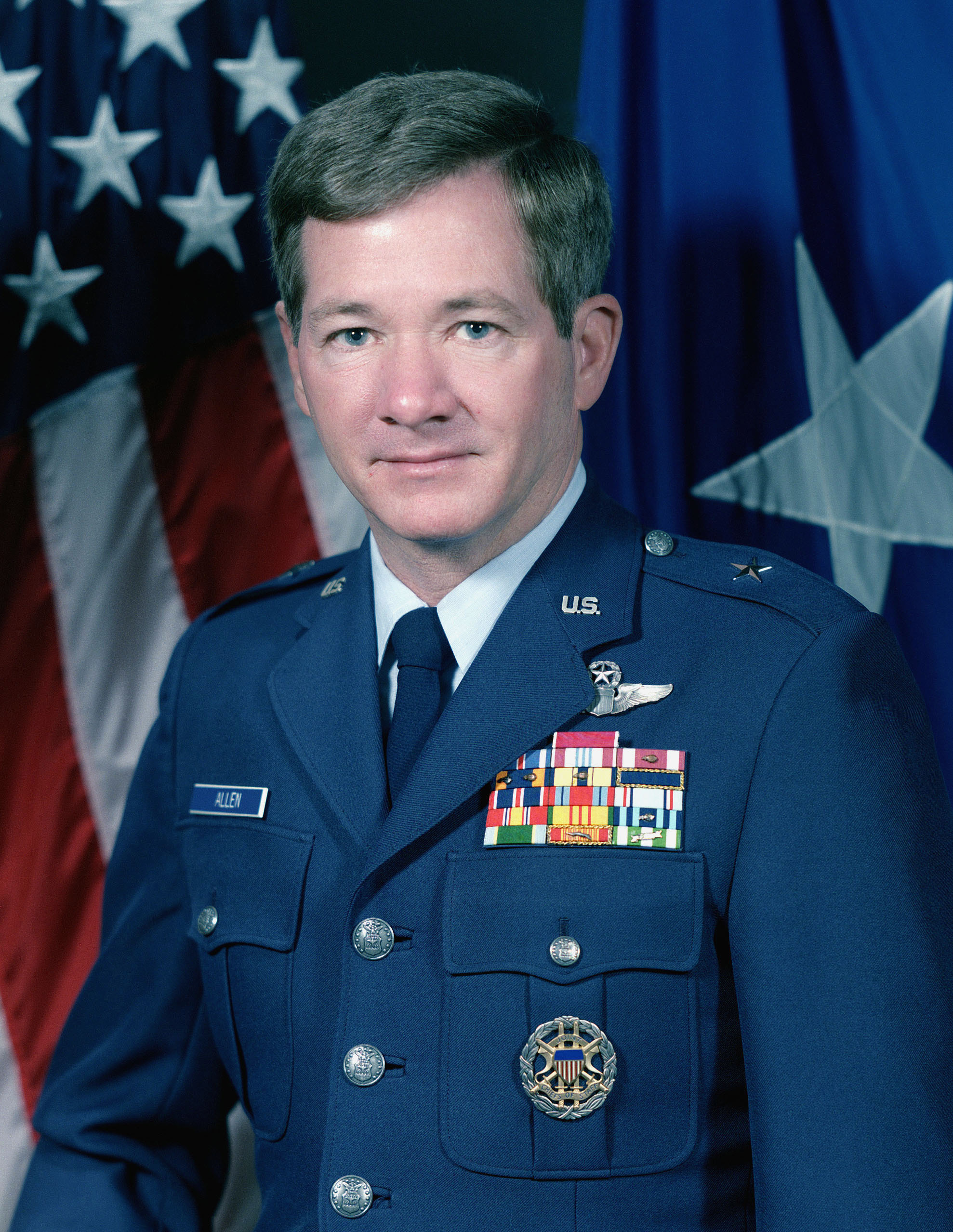 Brigadier General (BGEN) John R. Allen Jr., USAF (uncovered)